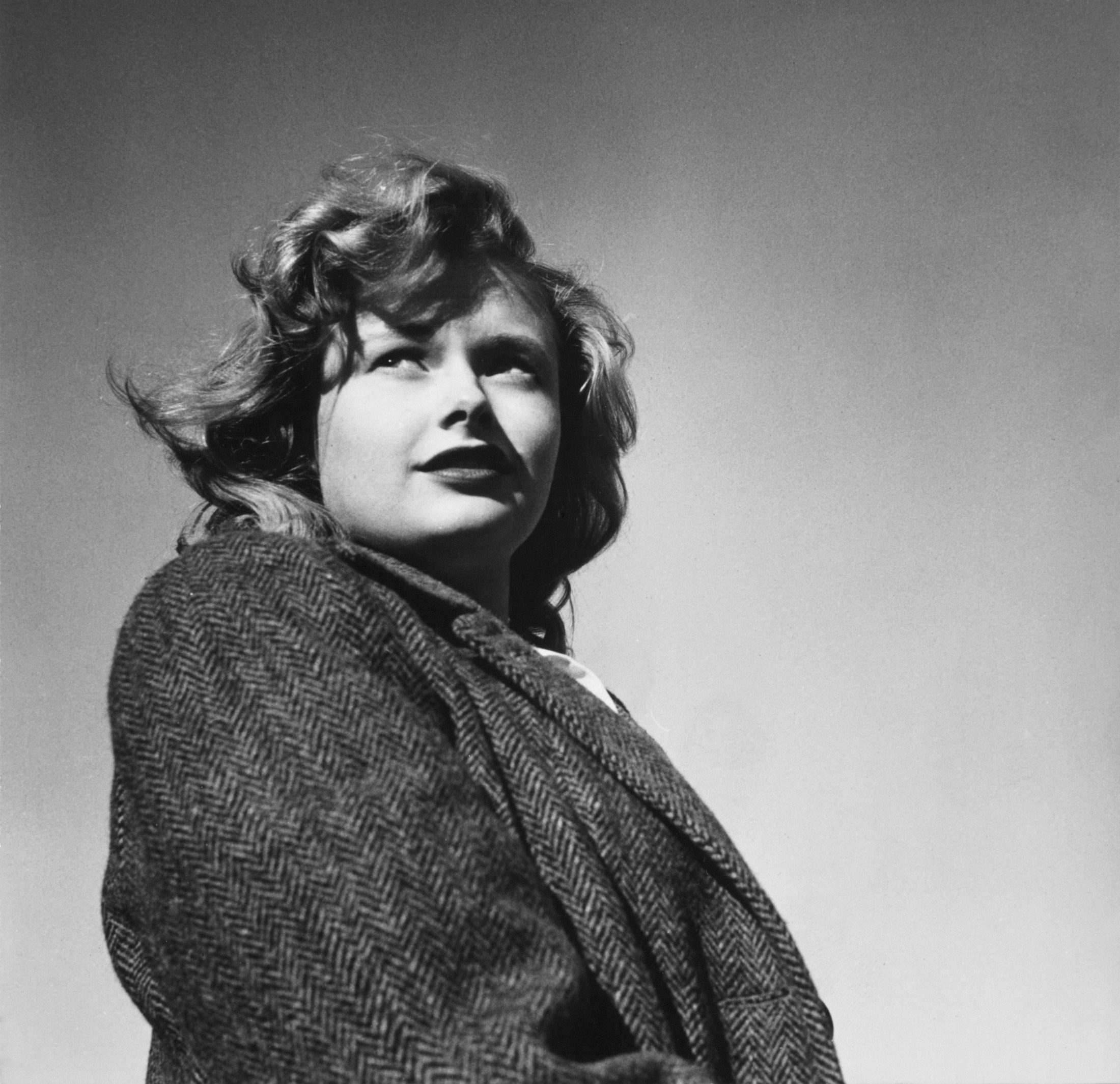 Photo of a high school girl, a student at Woodrow Wilson High School, Washington, DC.